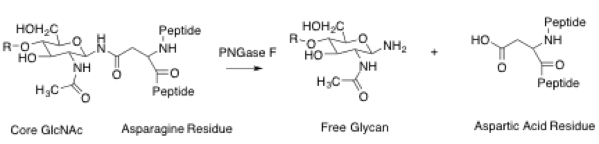 PNGase F mechanism to generate aspartic acid